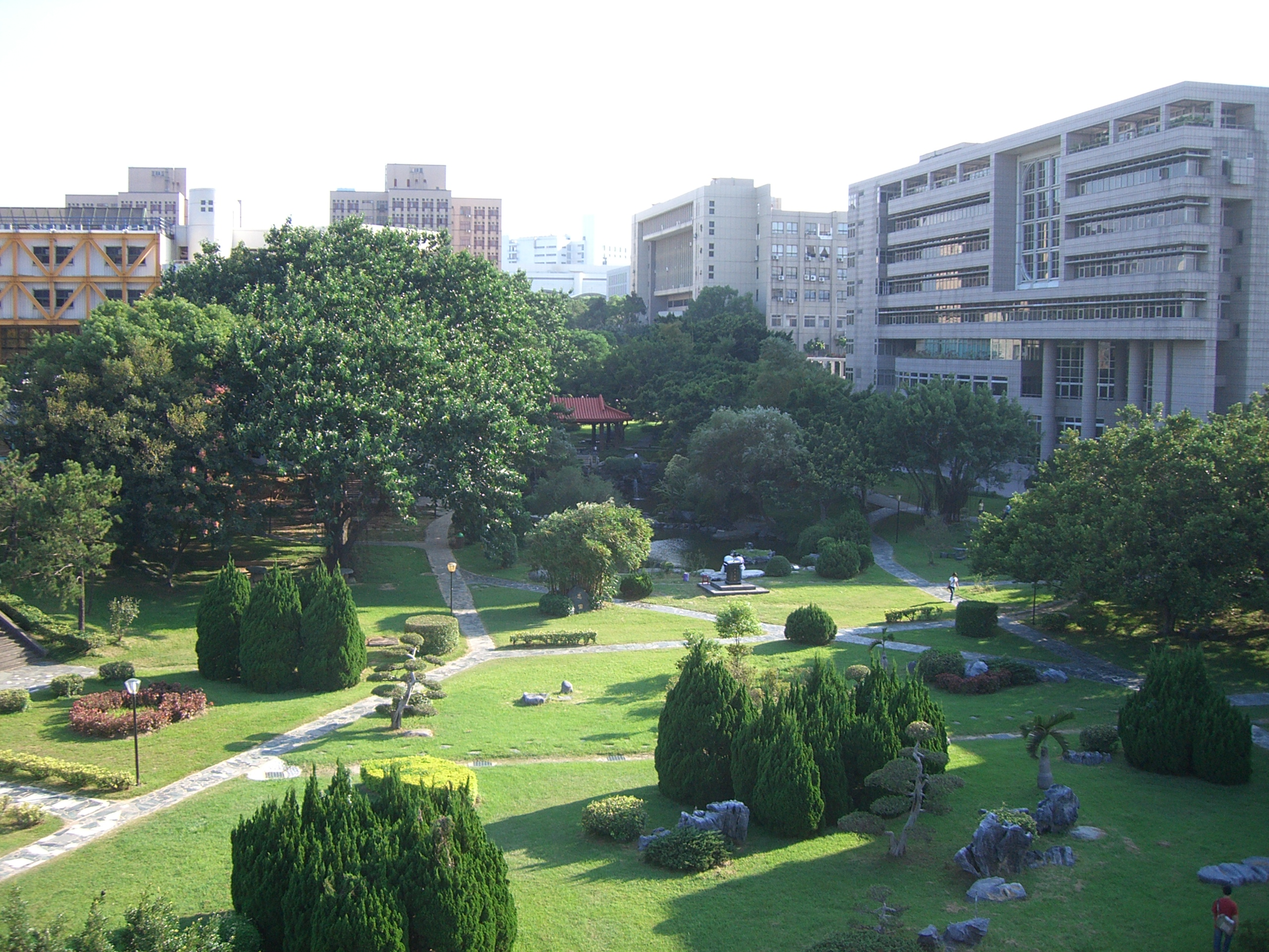 NCTU campus